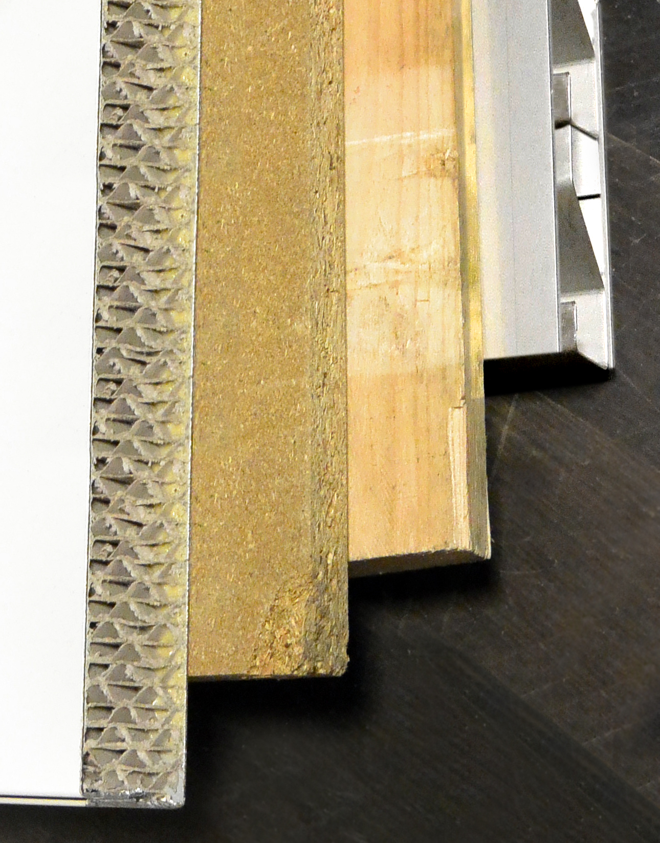 Alnoinox (left) and other kitchen board fillings